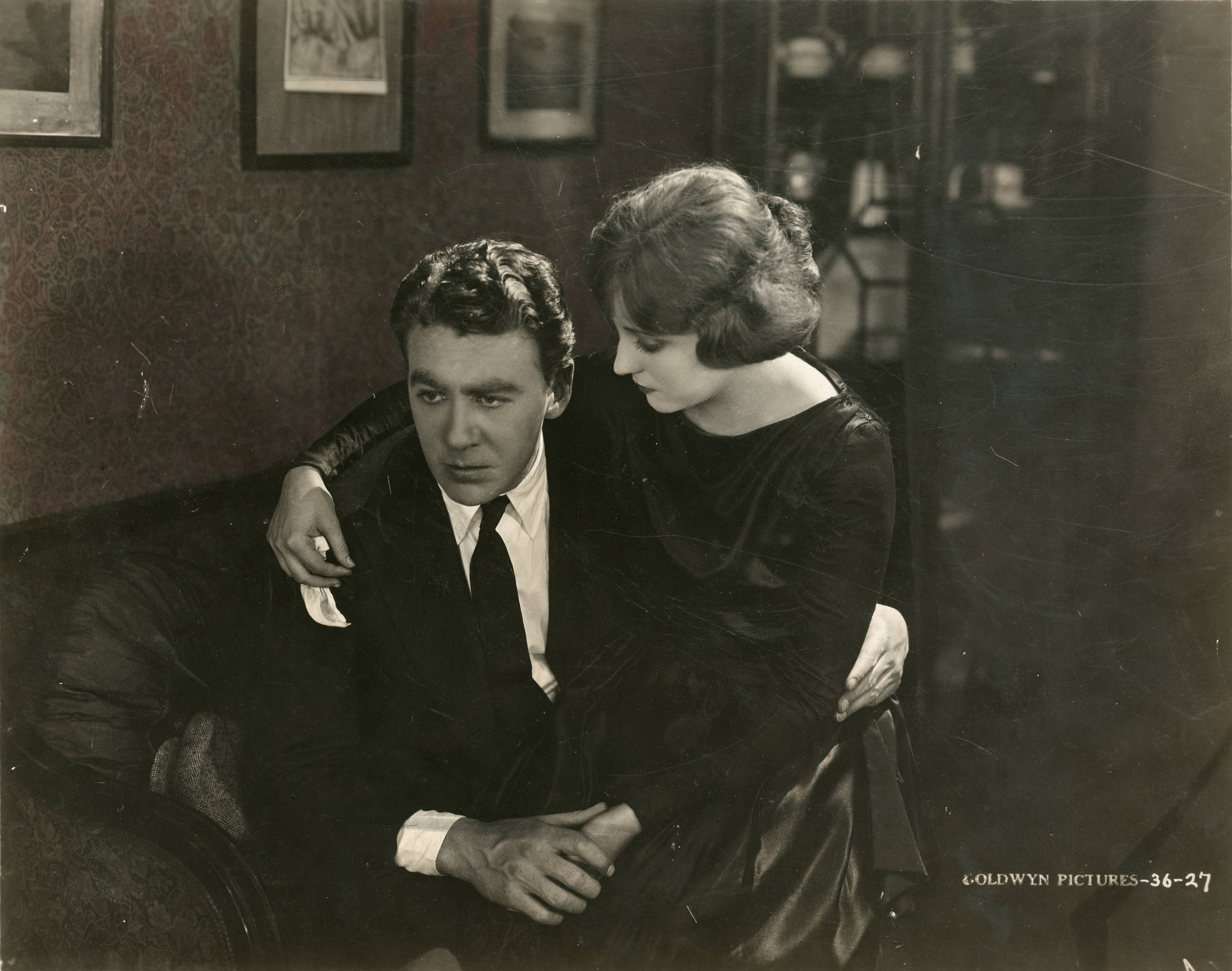 A scene from the American comedy drama film Thirty a Week (1918), with Tom Moore. Dated Feb. 6, 1919. Subjects: motion pictures, actors